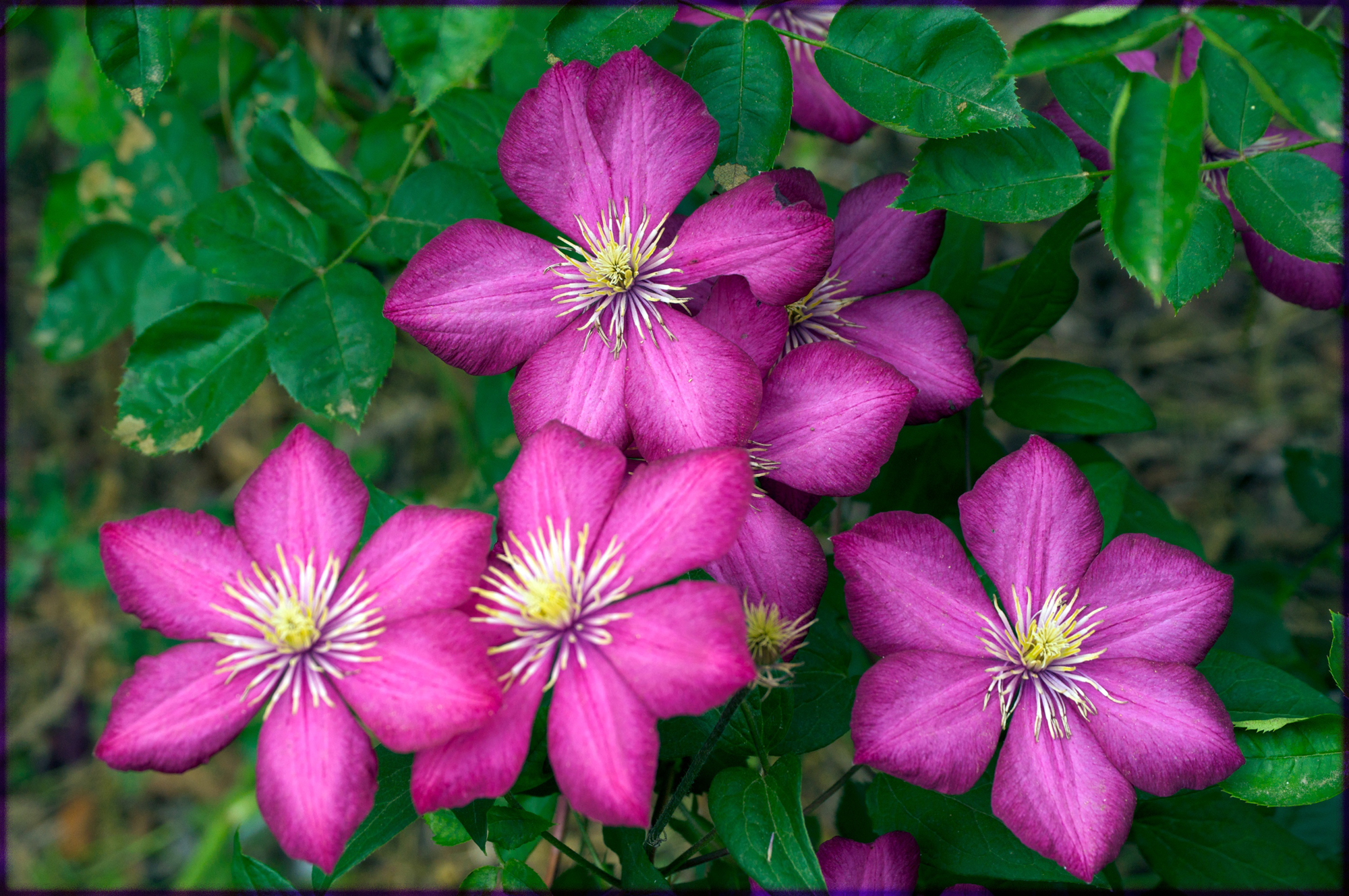 Clematis 'Ville de Lyon' in full bloom in Fort Smith, AR.